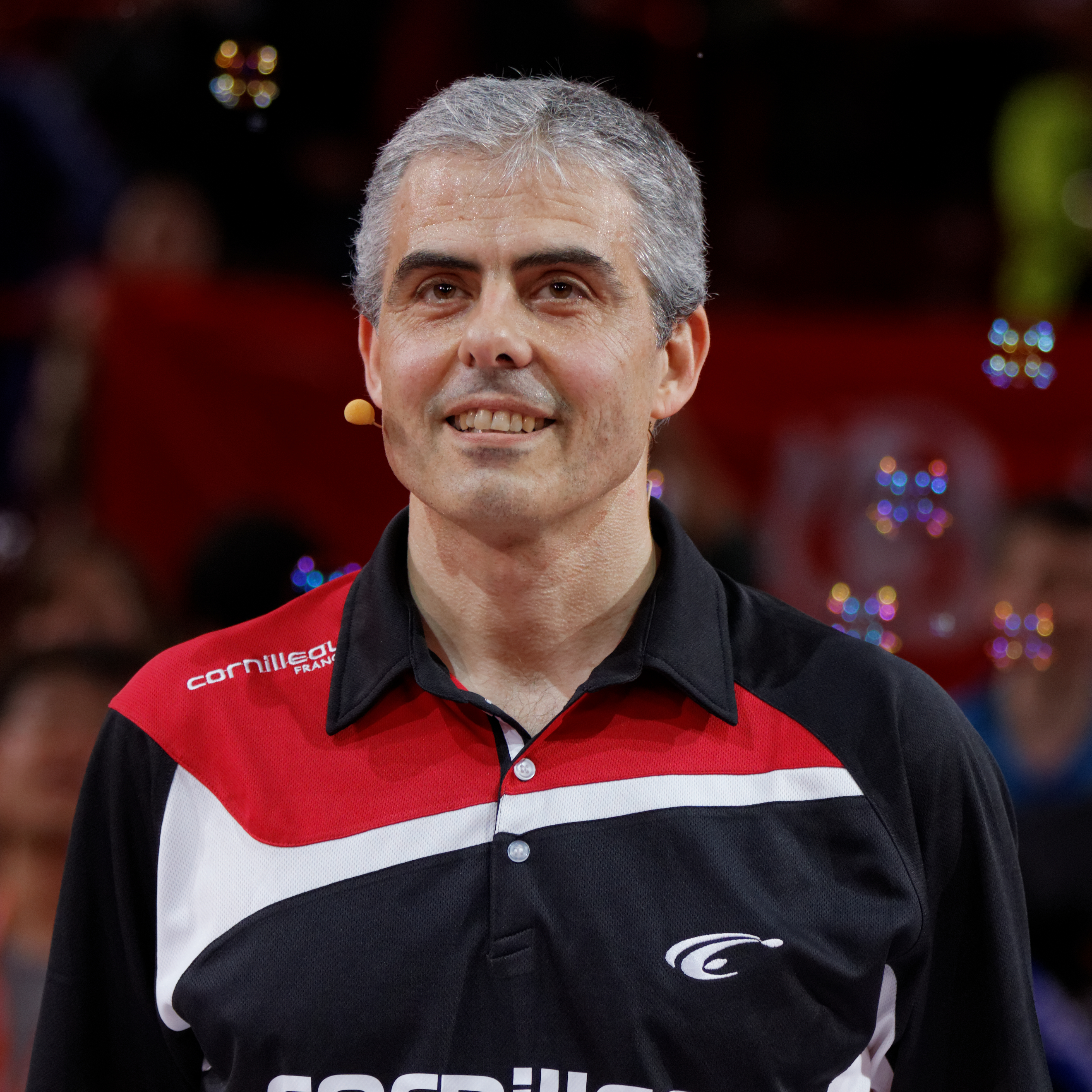 2013 World Table Tennis Championships, Paris. Jean-Michel Saive vs Jean-Philippe Gatien exhibition match.